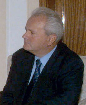 Admiral T. Joseph Lopez, US Navy, Allied Forces Southern Europe, United States Naval Forces Europe and Commander of the Implementation Forces (IFOR), visits Serbian President Slobodan Milosevic in Belgrade. This first meeting was held at the Presidency Building. IFOR personnel are in Bosnia in support of Operation JOINT ENDEAVOR (the multi-national peace mission in Bosnia). (Released to Public)